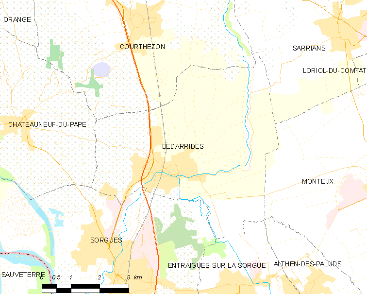 Map of French municipality Bédarrides